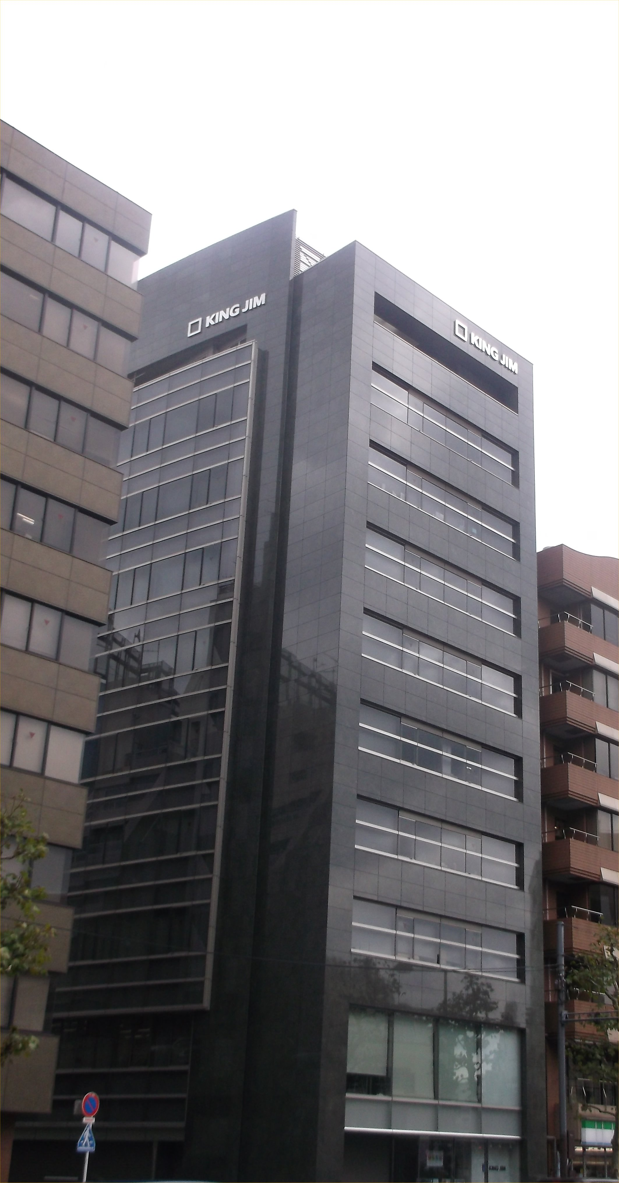 a photo of the head office of"King Jim"(a company that manufactures stationery products in Japan.)Higashikanda,Chiyoda-ku,Tokyo,Japan.